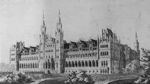 Architectural drawing for the Healy Building, Georgetown University, Washington, D.C. Perspective rendering.